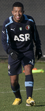 Tonny Trindade de Vilhena during training with Feyenoord.